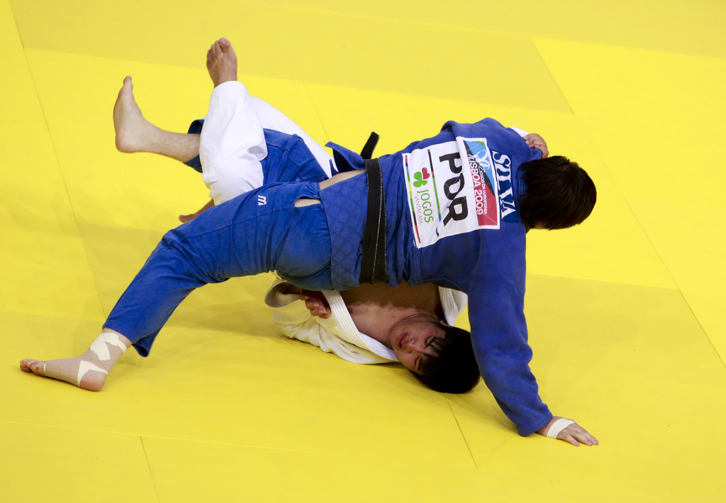 The athlete from Portugal, Macau and the athlete Silva Chan, fight for the award of third place in the -100 kg category of the second edition of the Lusophone Games, Tejo Room in Atlantic Pavilion, July 15, 2009.